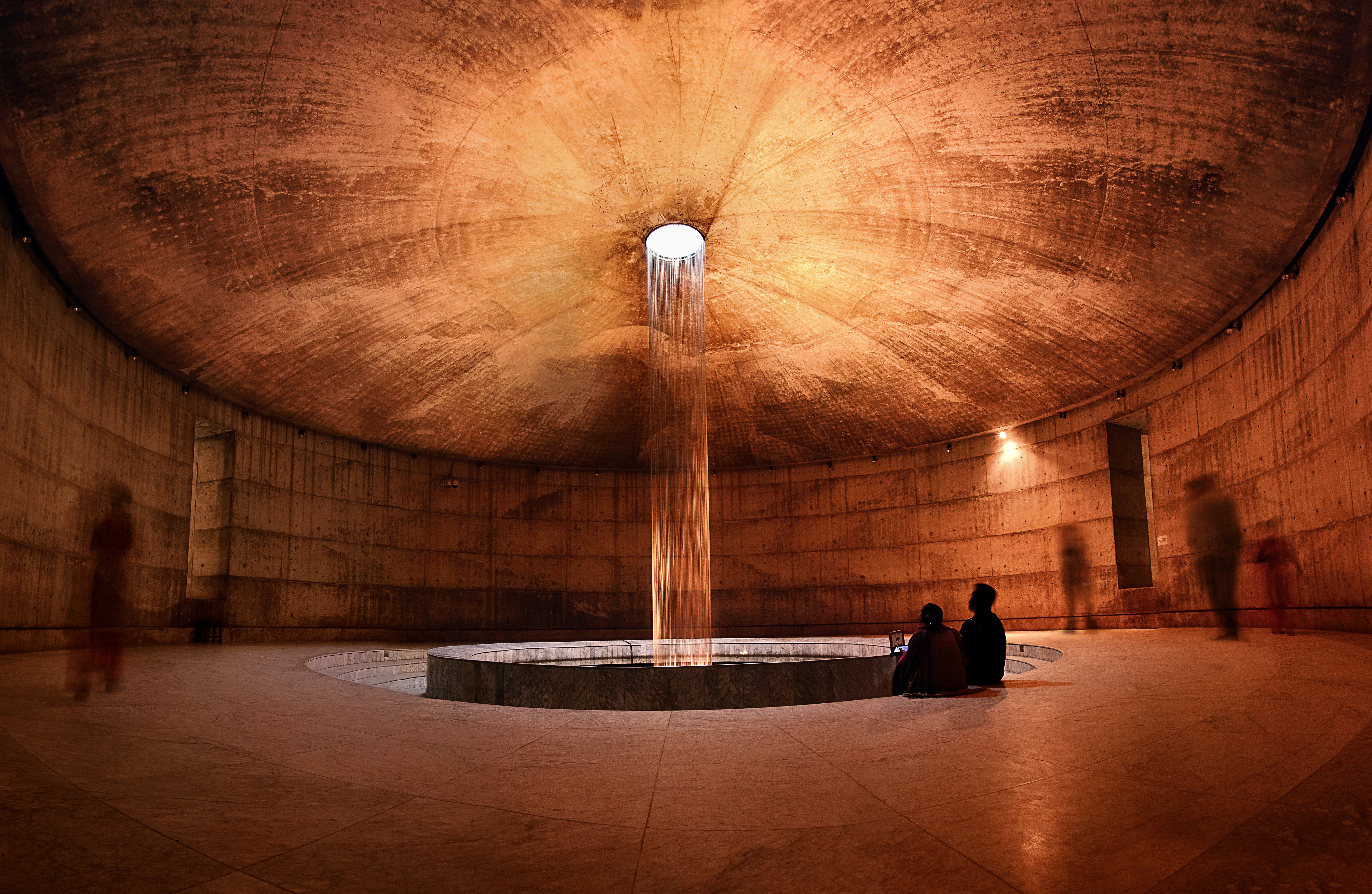 Museum of Independence situated in Dhaka, Bangladesh depicts the struggle for independence of Bangladesh.